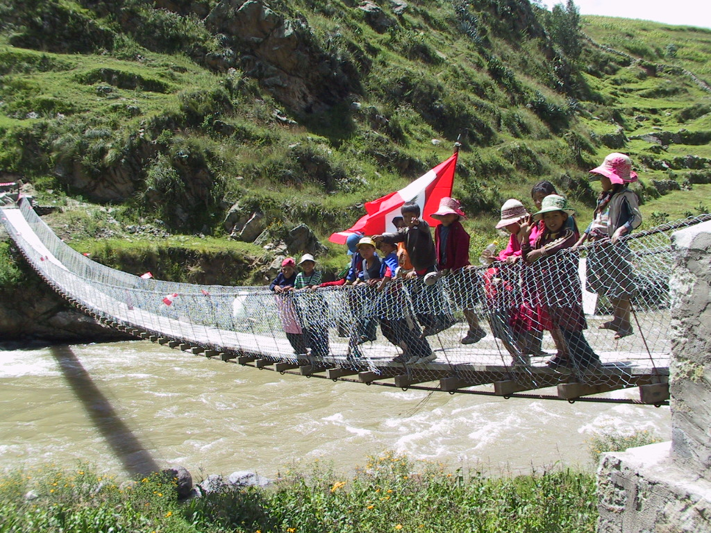 Children wave Peruvian flag on new footbridge across River Santo Tomás in Qullpatumayku, Llusco Ditrict, Chumbivilcas Province, Cusco Region in Peru